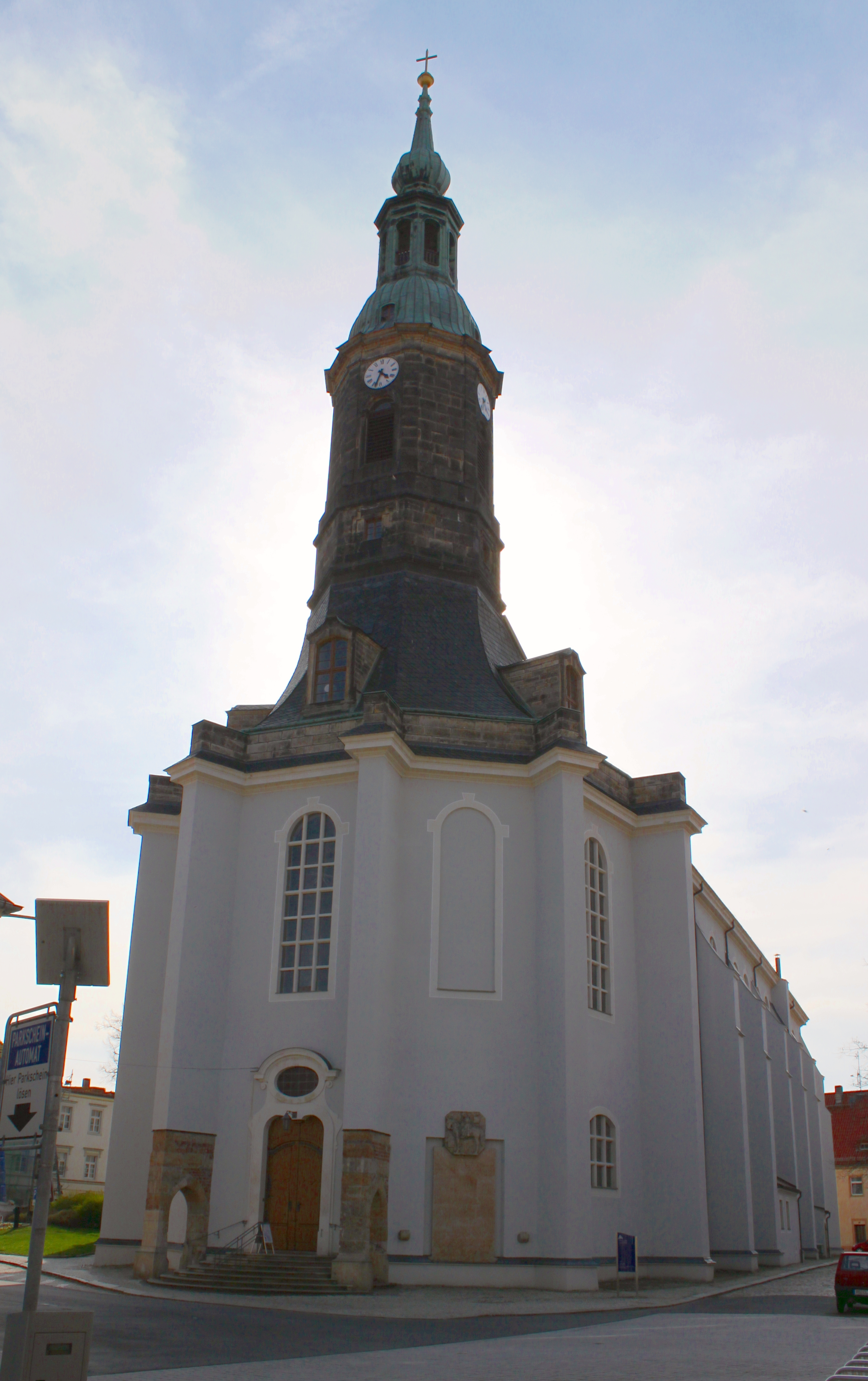 The Marienchurch of Großenhain